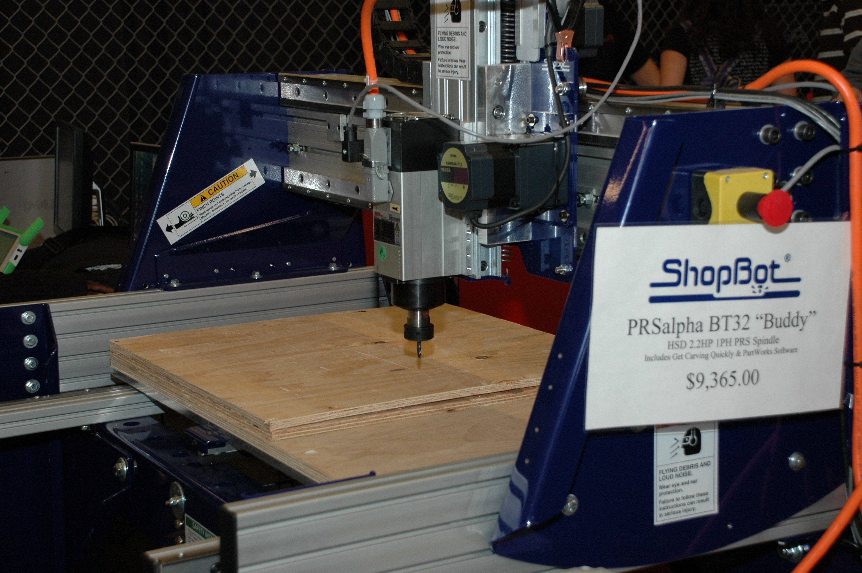 Maker Faire 2008, San Mateo. A ShopBot CNC machine targeted at the hobbyist and do-it-yourself market.